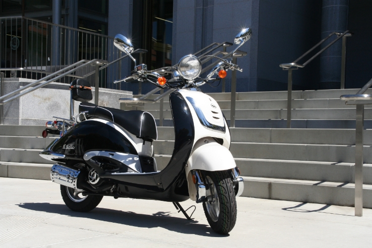 Flyscooters scooter moped personal picture taken at UC Berkeley in California